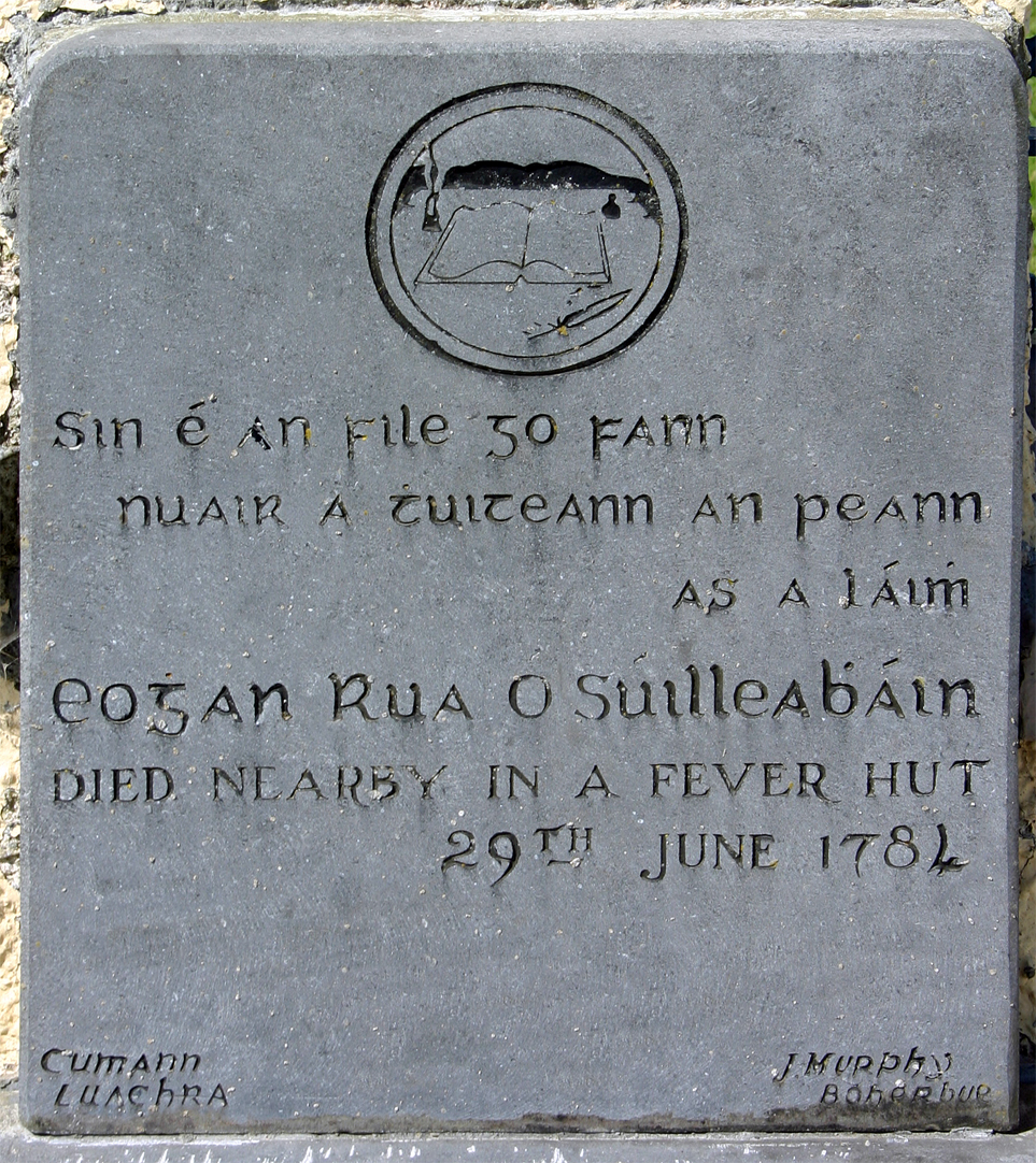 The grave of the Irish poet Eogan Rua O'Sullivan